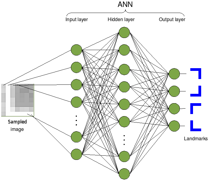 This picture shows the internal structure of an Artificial Neural Network (ANN) used to recognize landmarks in a camera image.